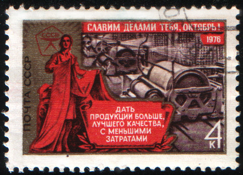 Stamp of the USSR. 59th anniversary of October revolution, 1976